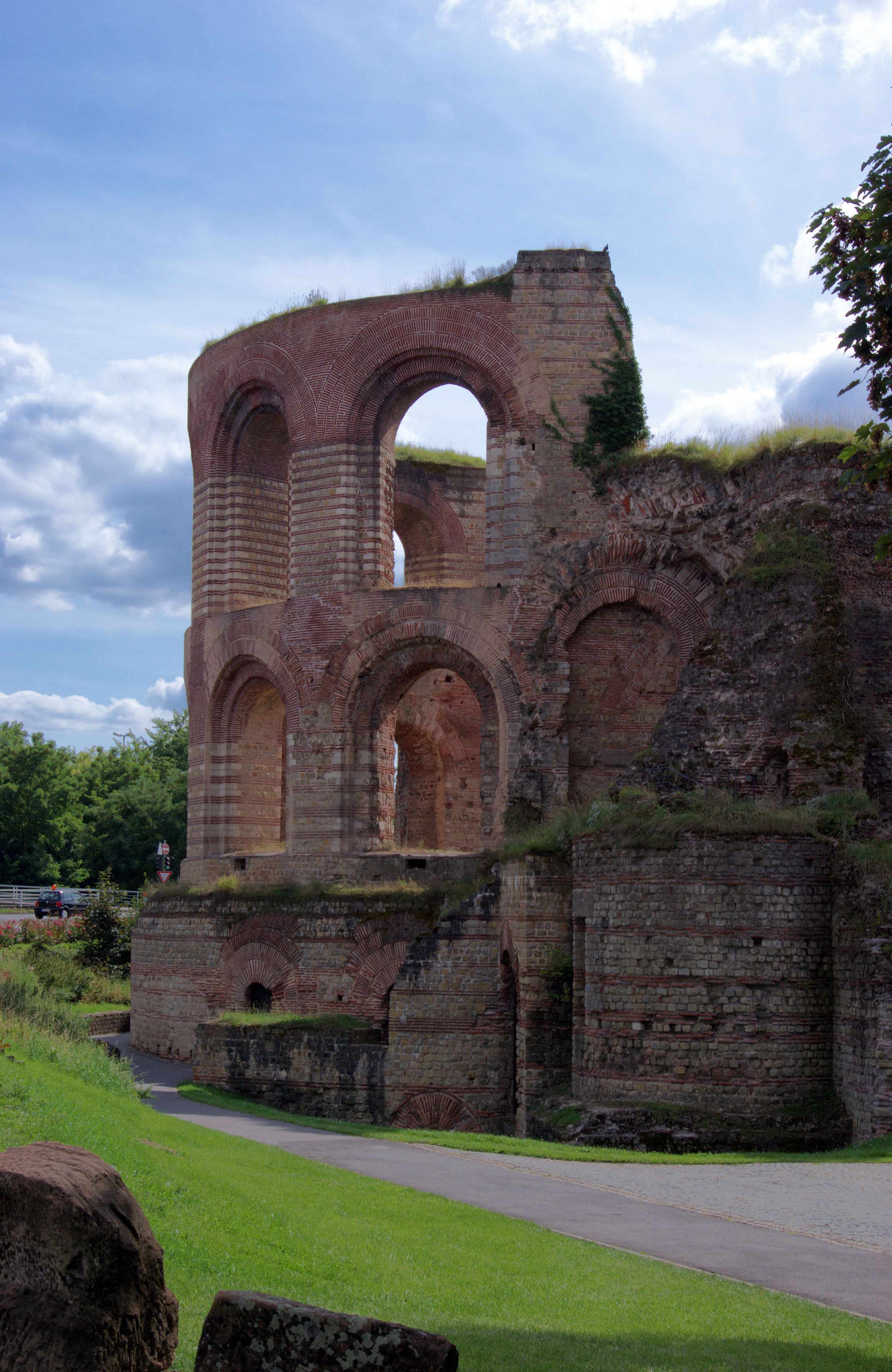 Imperial thermæ in Trier.